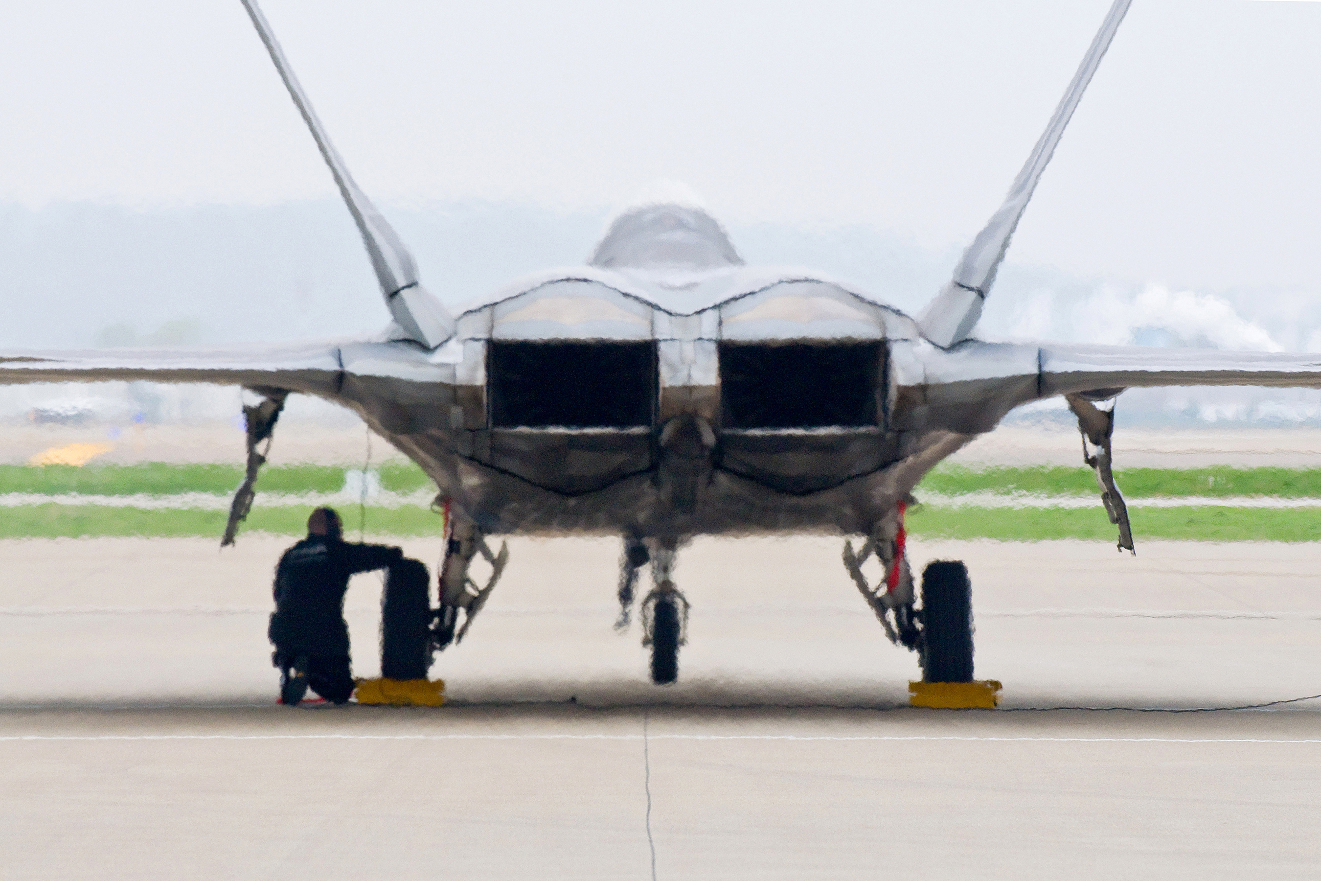 A crew chief for the U.S. Air Force F-22 Raptor aerial demonstration team chocks a Raptor's wheel April 16 on the flightline of the Kentucky Air National Guard base in Louisville, Ky. The team will be participating in the Thunder Over Louisville air show April 18.